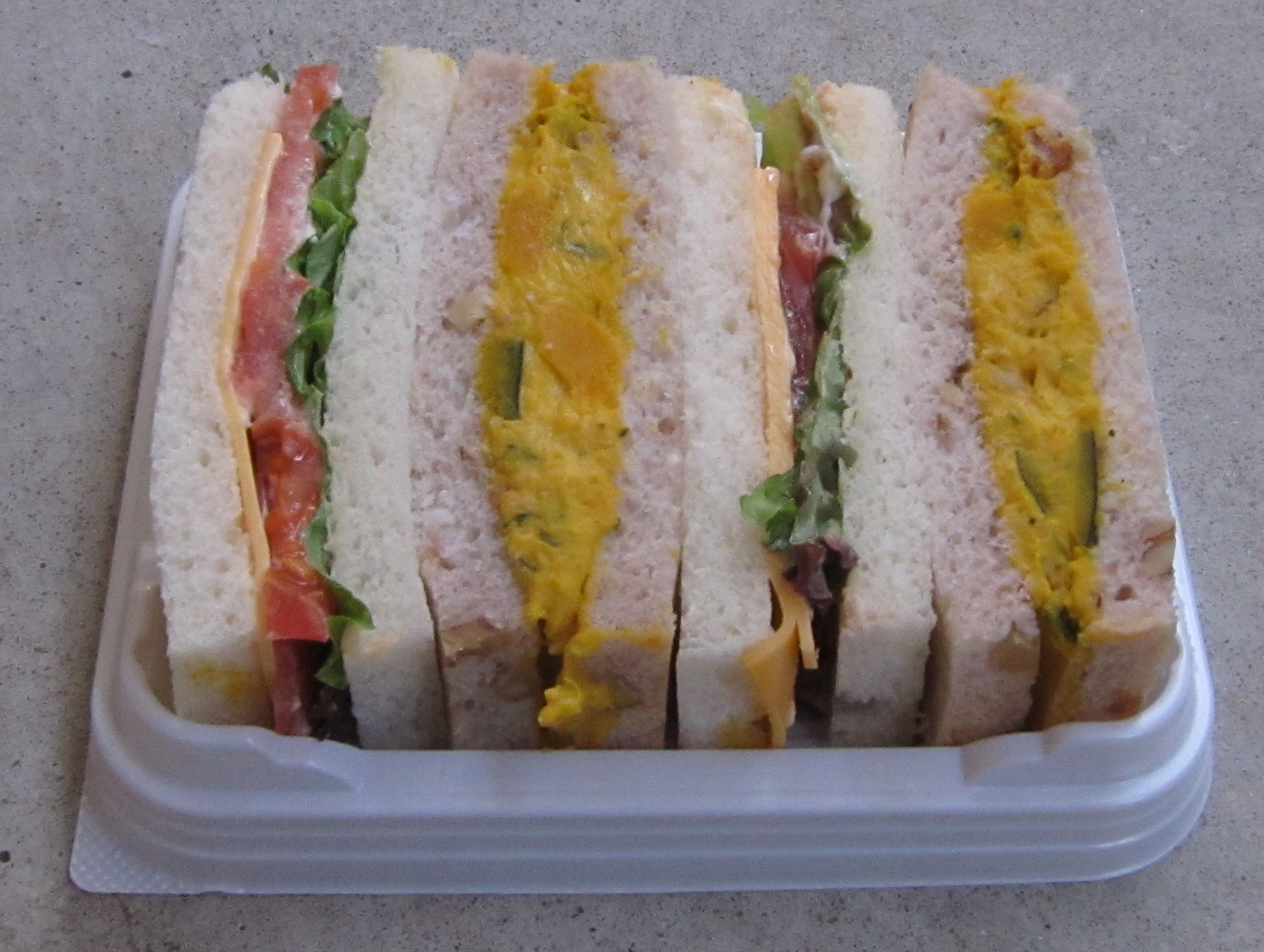 Rather luxurious mixed sandwiches in Japan, from an artisanal Kyoto bakery.